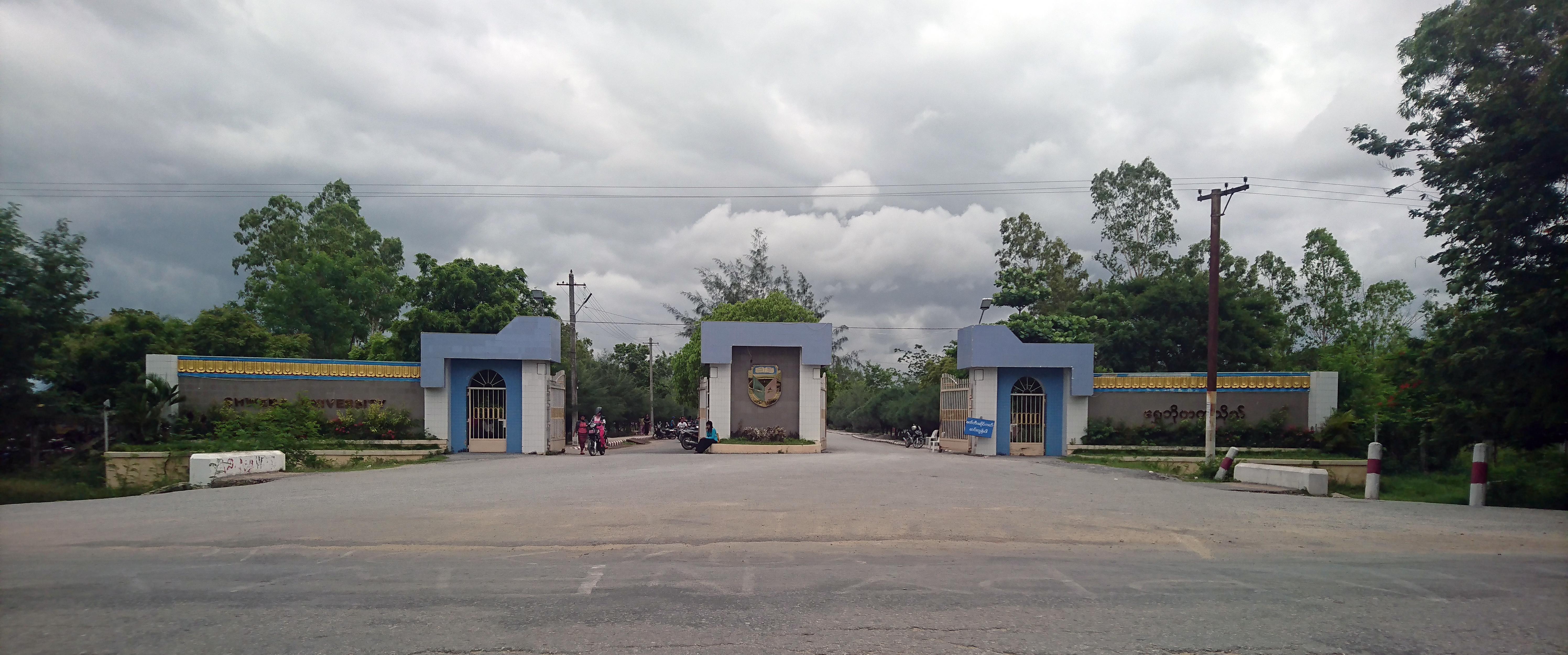 Entrance gate of Shwebo University မြန်မာဘာသာ: ရွှေဘိုတက္ကသိုလ်ဝင်ပေါက်